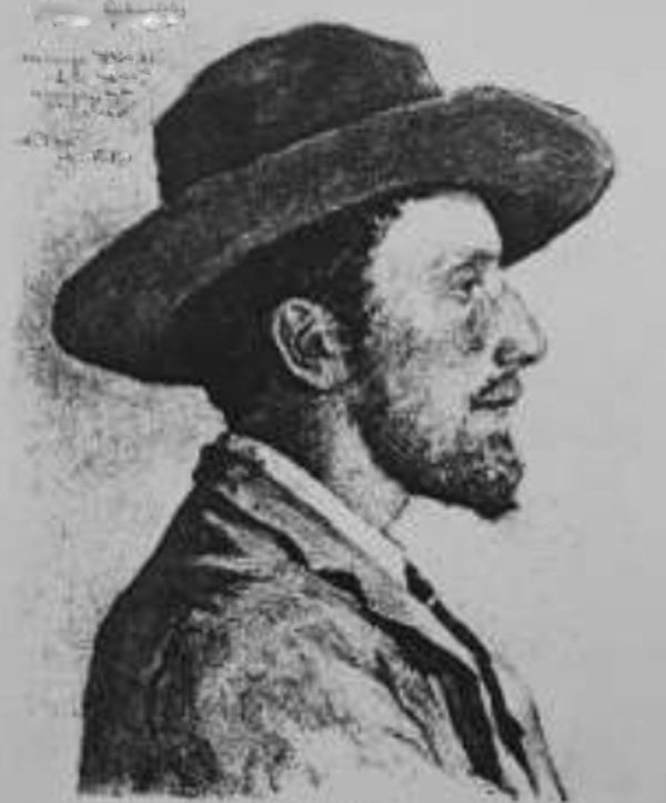 William Arkwright, owner of Sutton Scarsdale Hall, circa 1890.